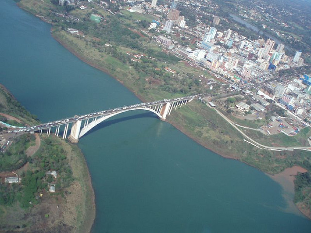 The Friendship Bridge between Brazil and Paraguay